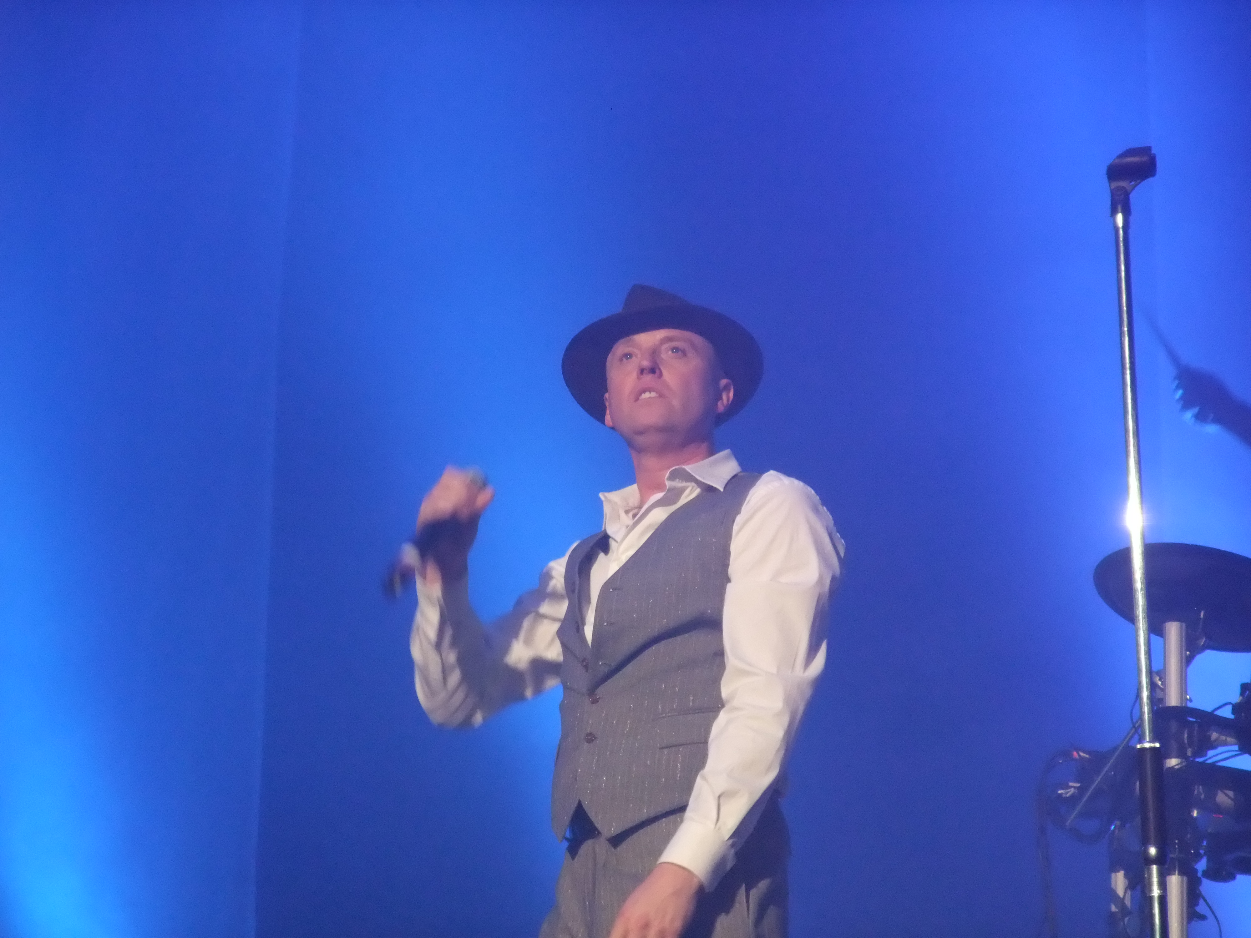 Glen Gregory of Heaven 17 on stage during Steel City Tour 2008